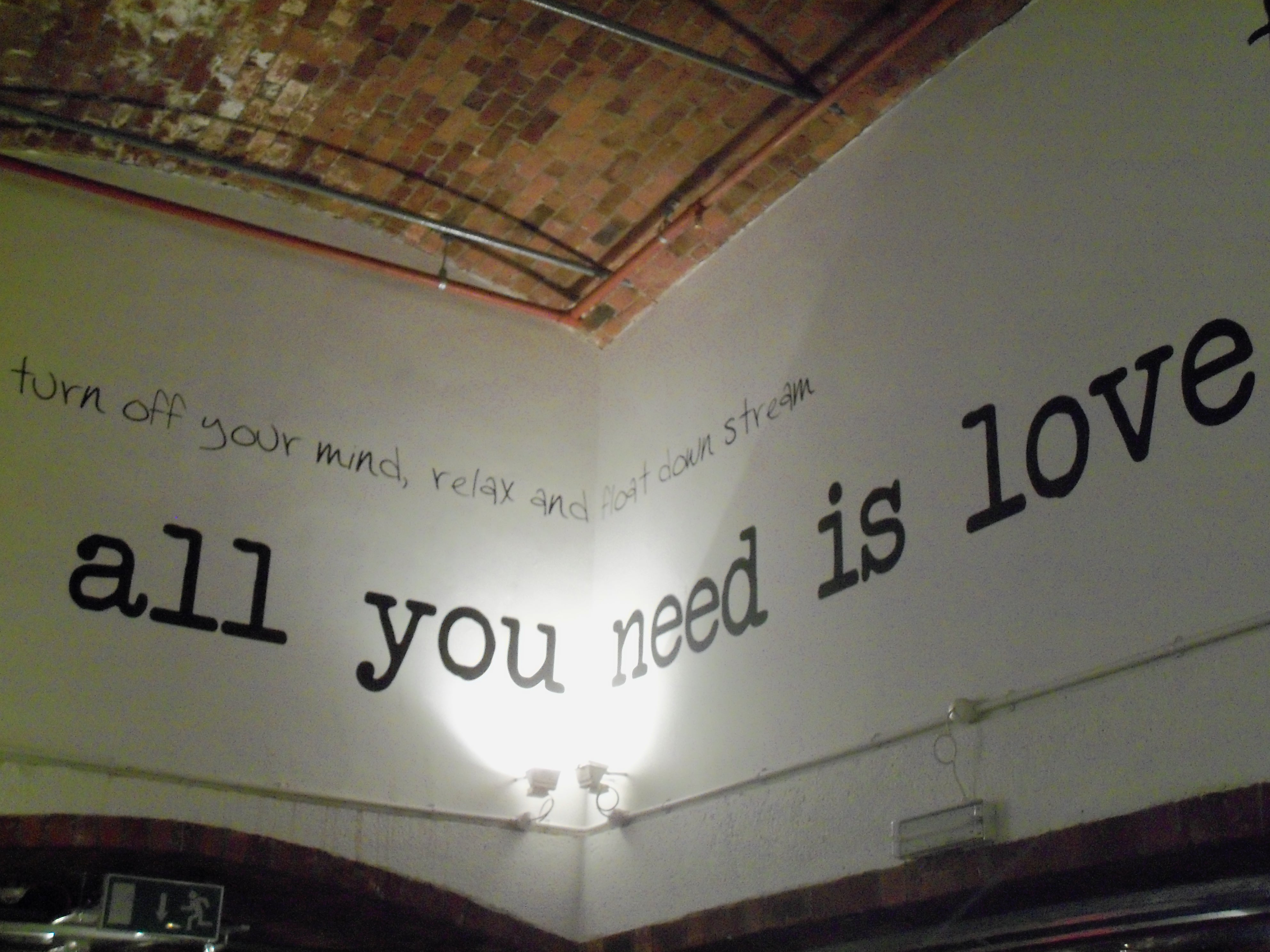 wall painting of the Beatles Story museum.